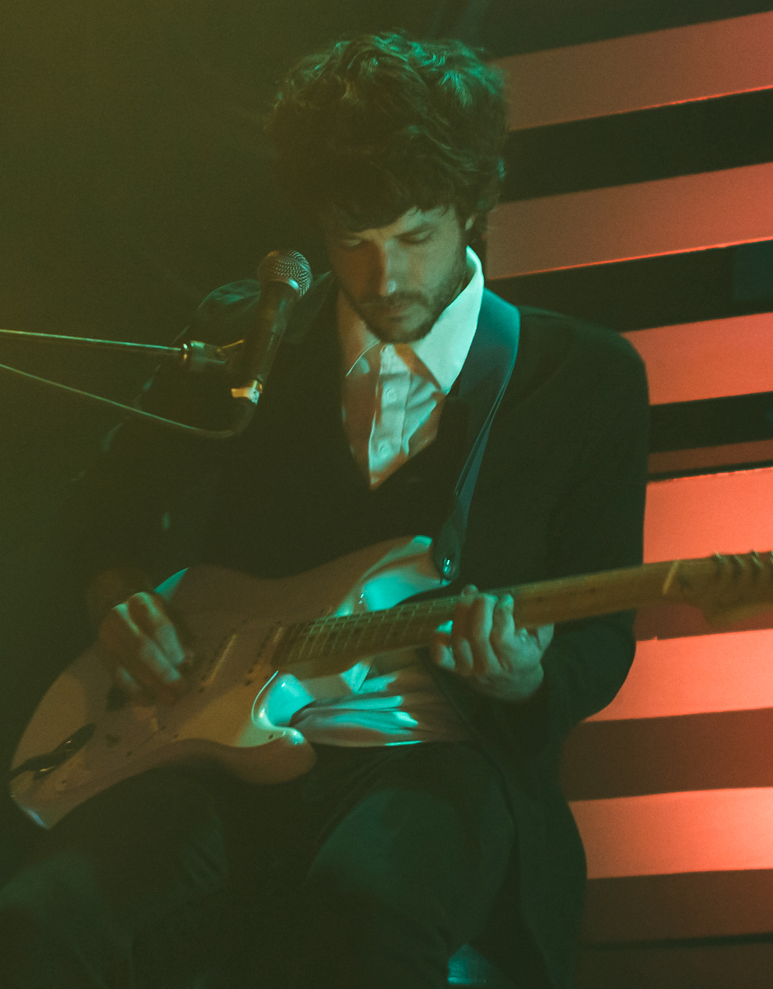 Alex Scally performing with Beach House, 2012